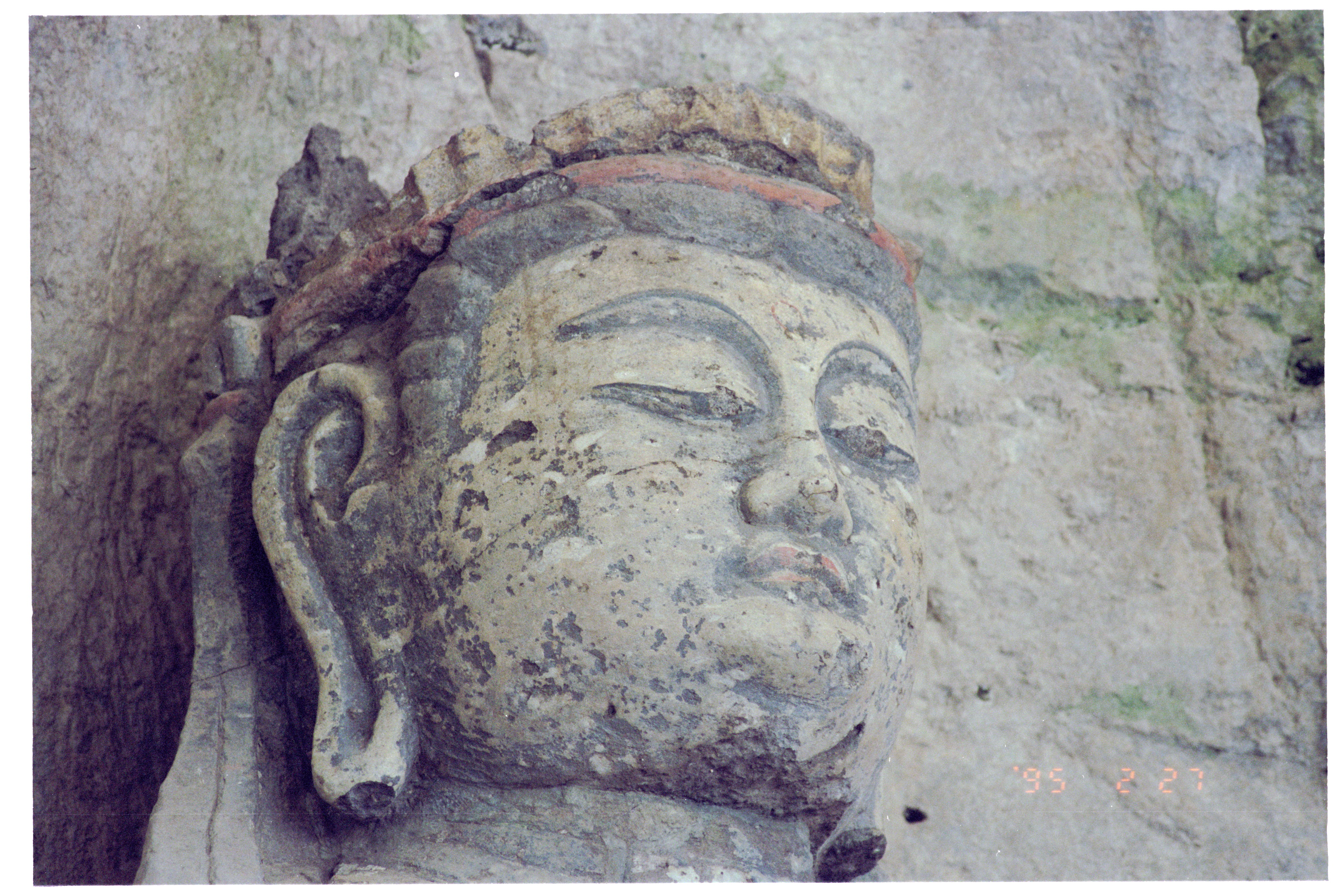 Usuki Stone Buddhas, Usuki, Oita, Japan.